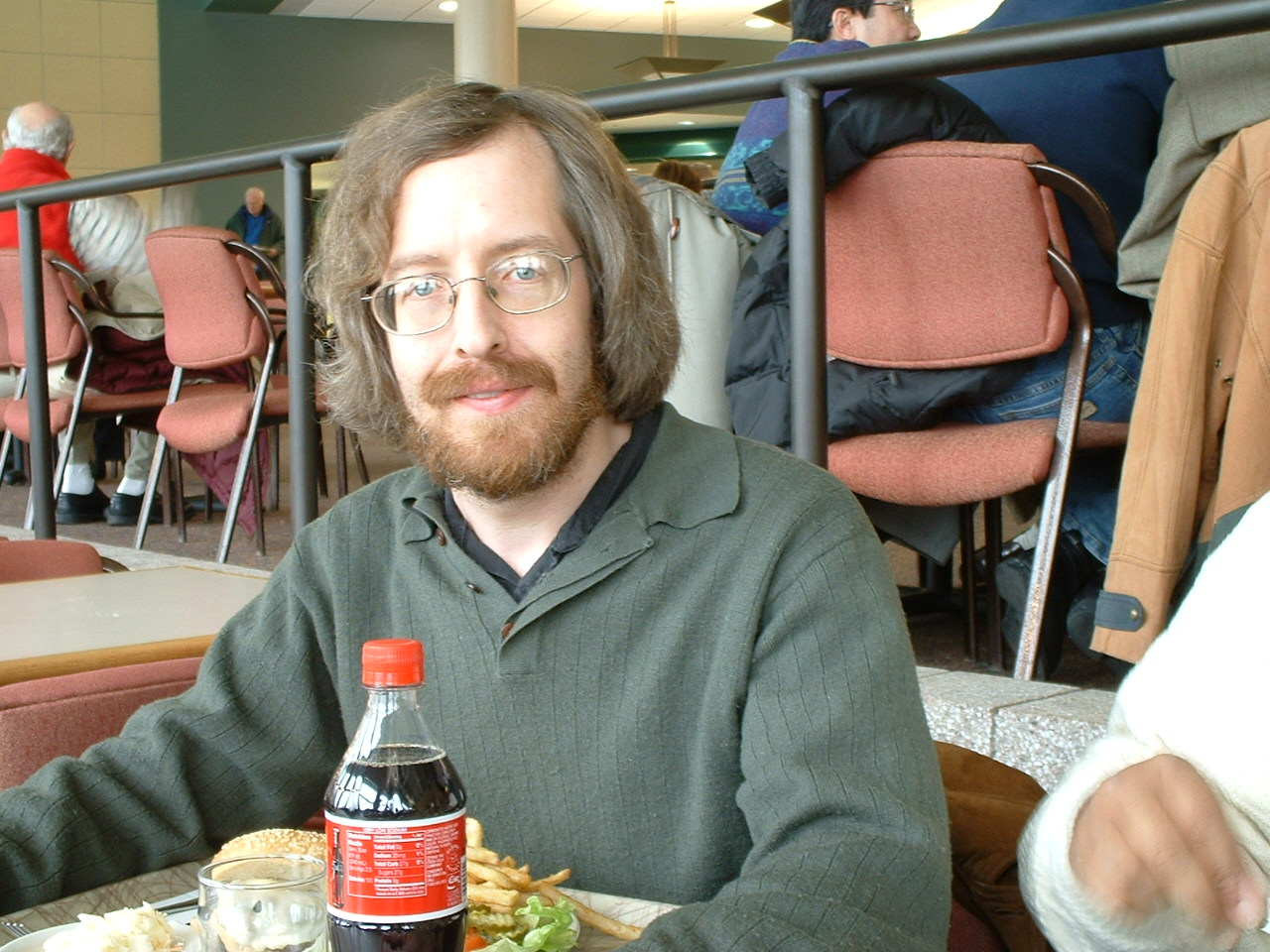 Michael Douglas at Rutgers University (Busch Campus Dining Hall)